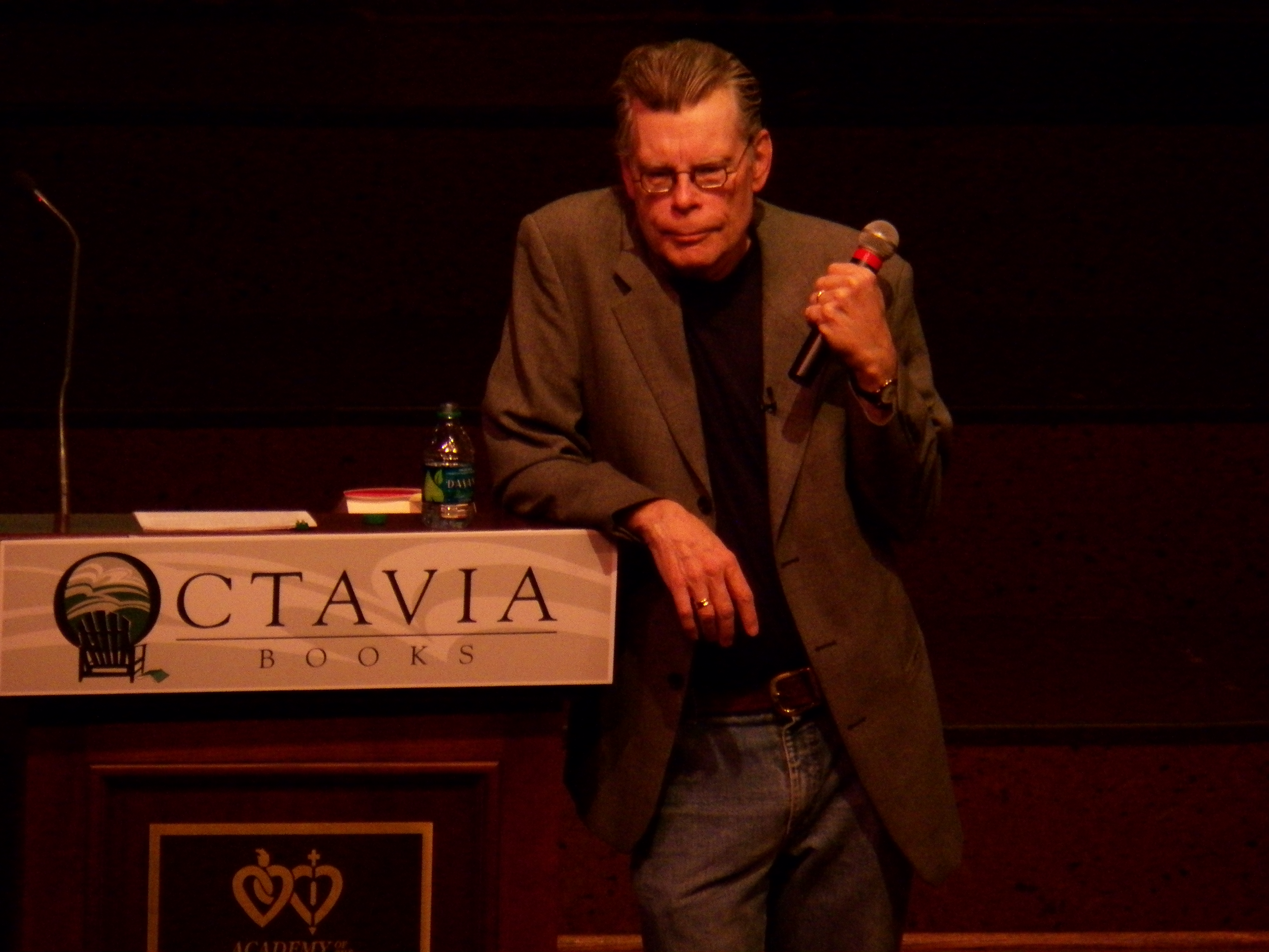 Stephen King in 2011